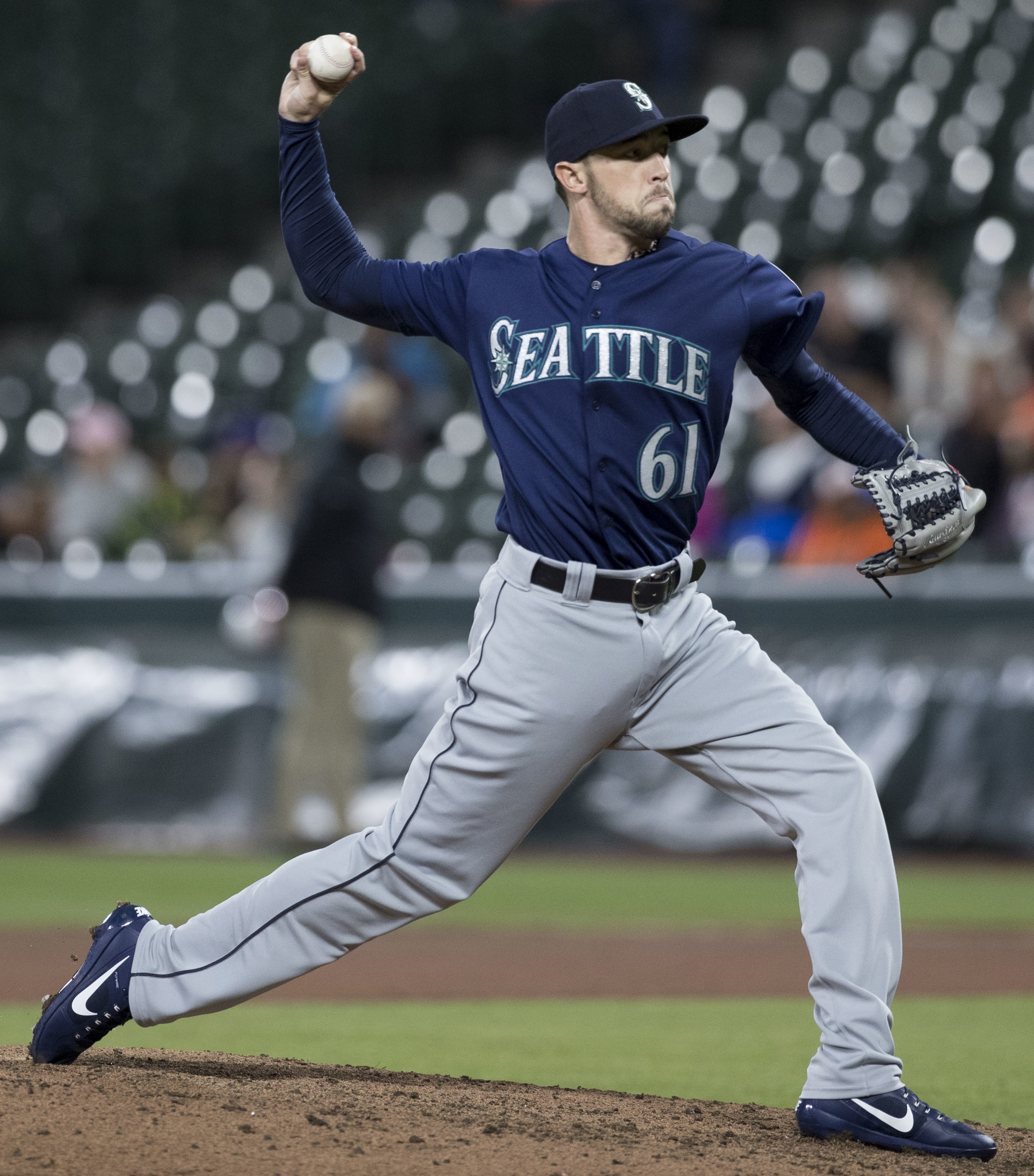 Mariners at Orioles 8/29/17